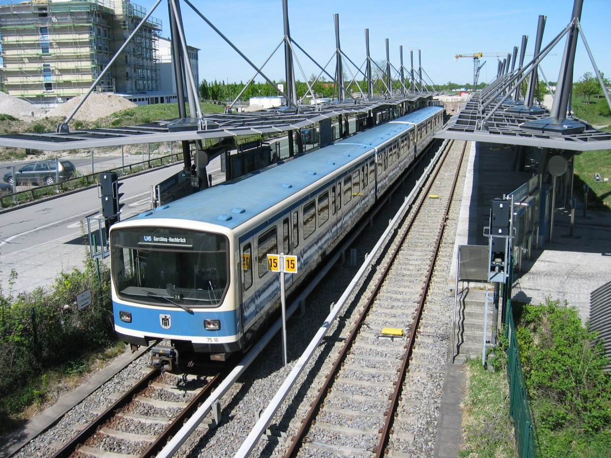 Munich subway station Garching-Hochbrück